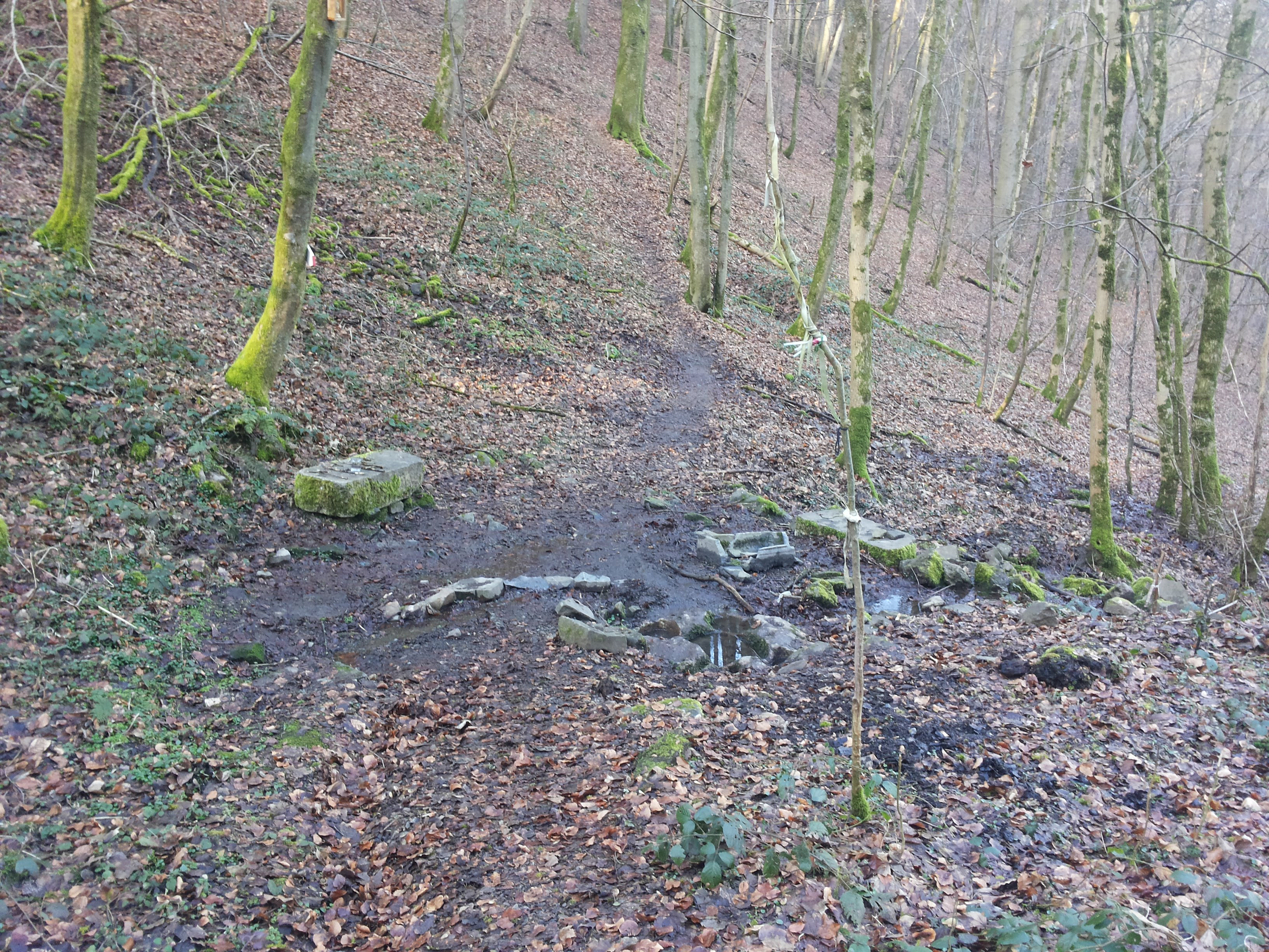 Source of Saint-Thibaut, Marcourt, Rendeux, Belgium